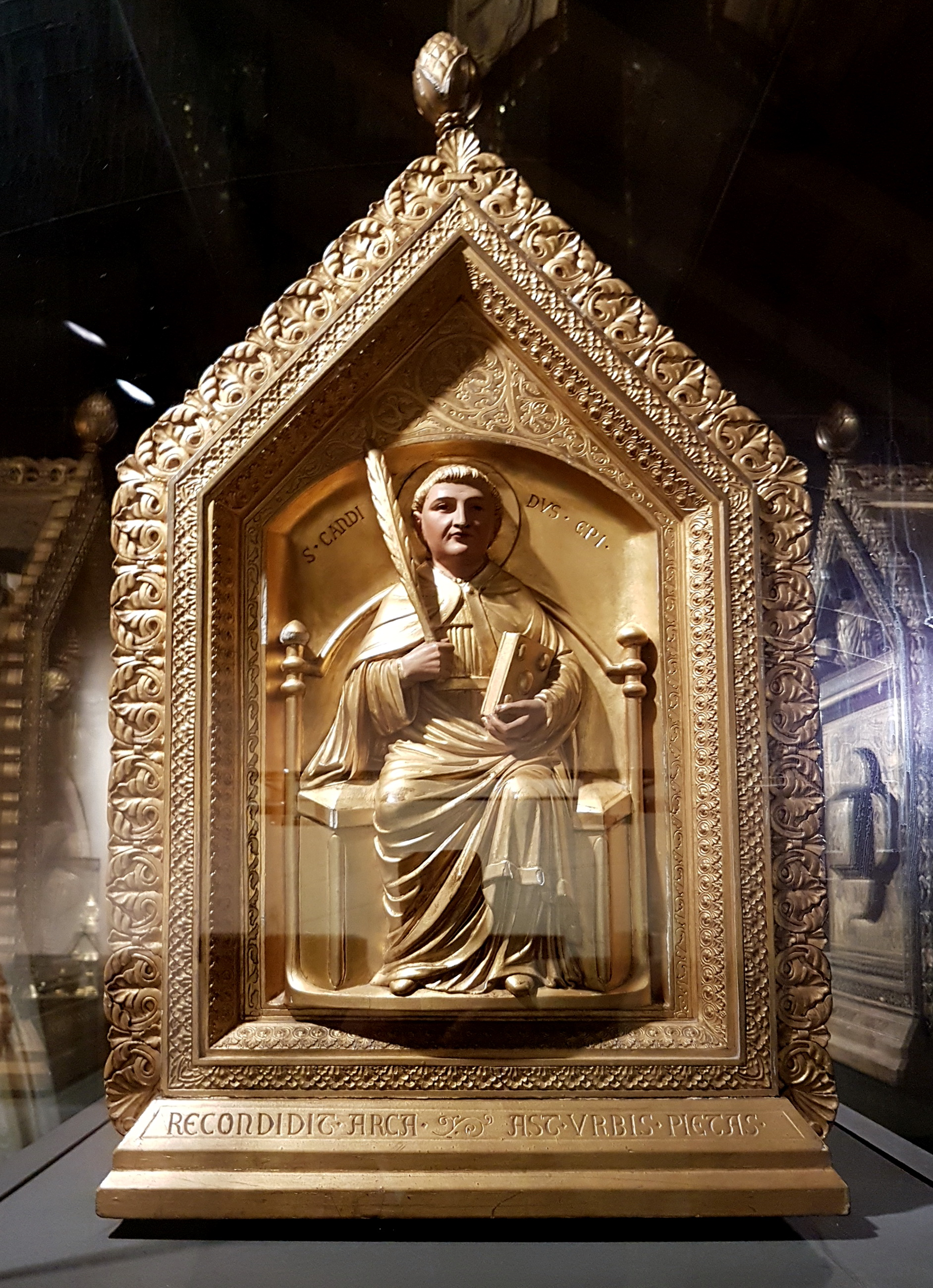 View of a Romanesque Revival reliquary chest in the Treasury of the Basilica of Saint Servatius in Maastricht, Netherlands. The design of this shrine is based on a set of four gabled panels, formerly in this church, now in the Royal Museums of Art and History (Cinquantenaire Museum) in Brussels, Belgium. These panels had been used as reliquaries of four bishops of Tongeren-Maastricht: Valentinus, Candidus, Monulph and Gondulph. The 12th-century original panels were displayed with the reliquary chest of Saint Servatius (Noodkist). This particular panel shows Saint Candidus, Saint Servatius' successor.